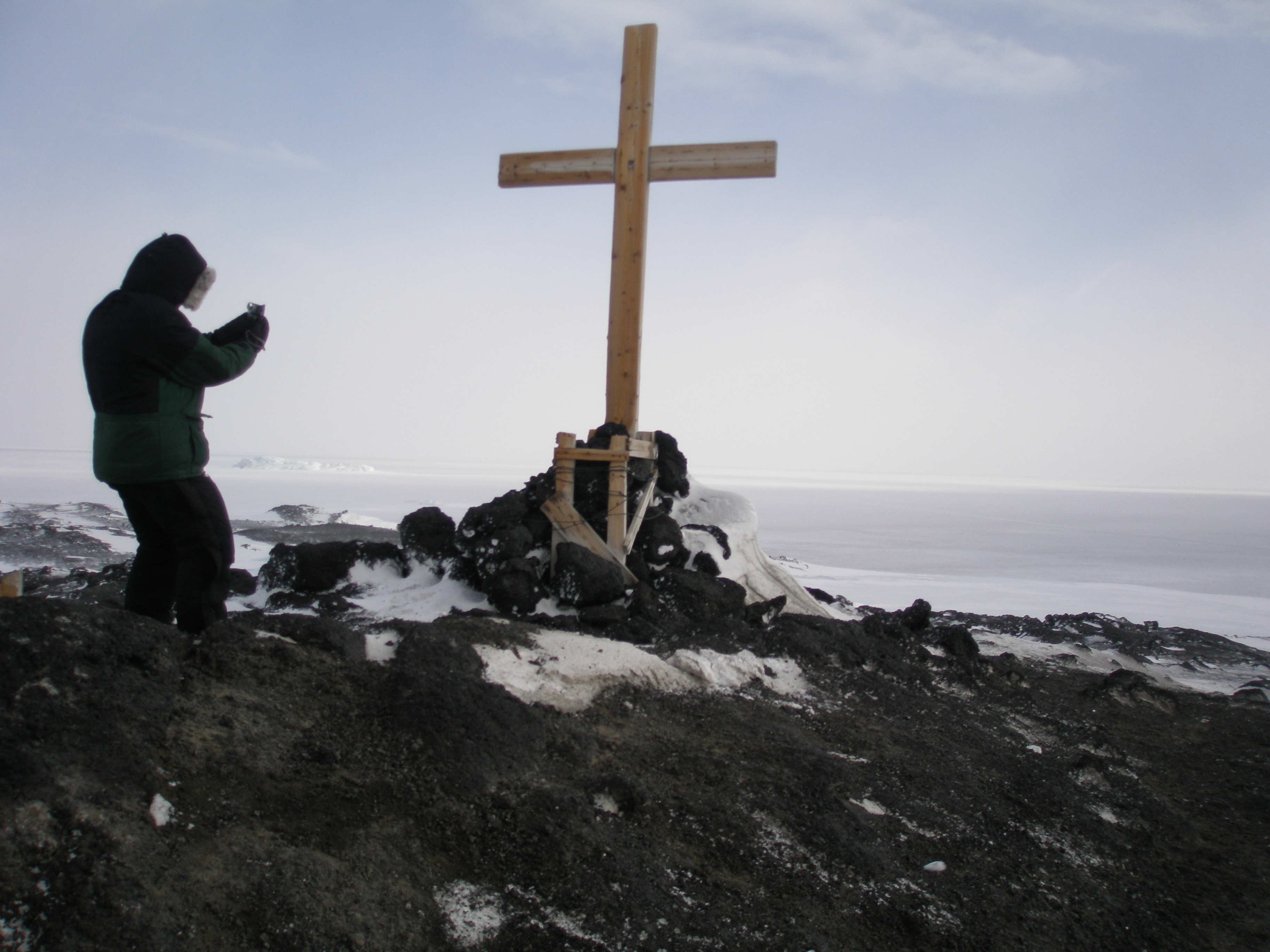 Cross on Wind Vane Hill, Cape Evans, Ross Island, erected by the Ross Sea Party, led by Captain Aeneas Mackintosh, of Sir Ernest Shackleton’s Imperial Trans-Antarctic Expedition of 1914-1916, in memory of three members of the party who died in the vicinity in 1916.